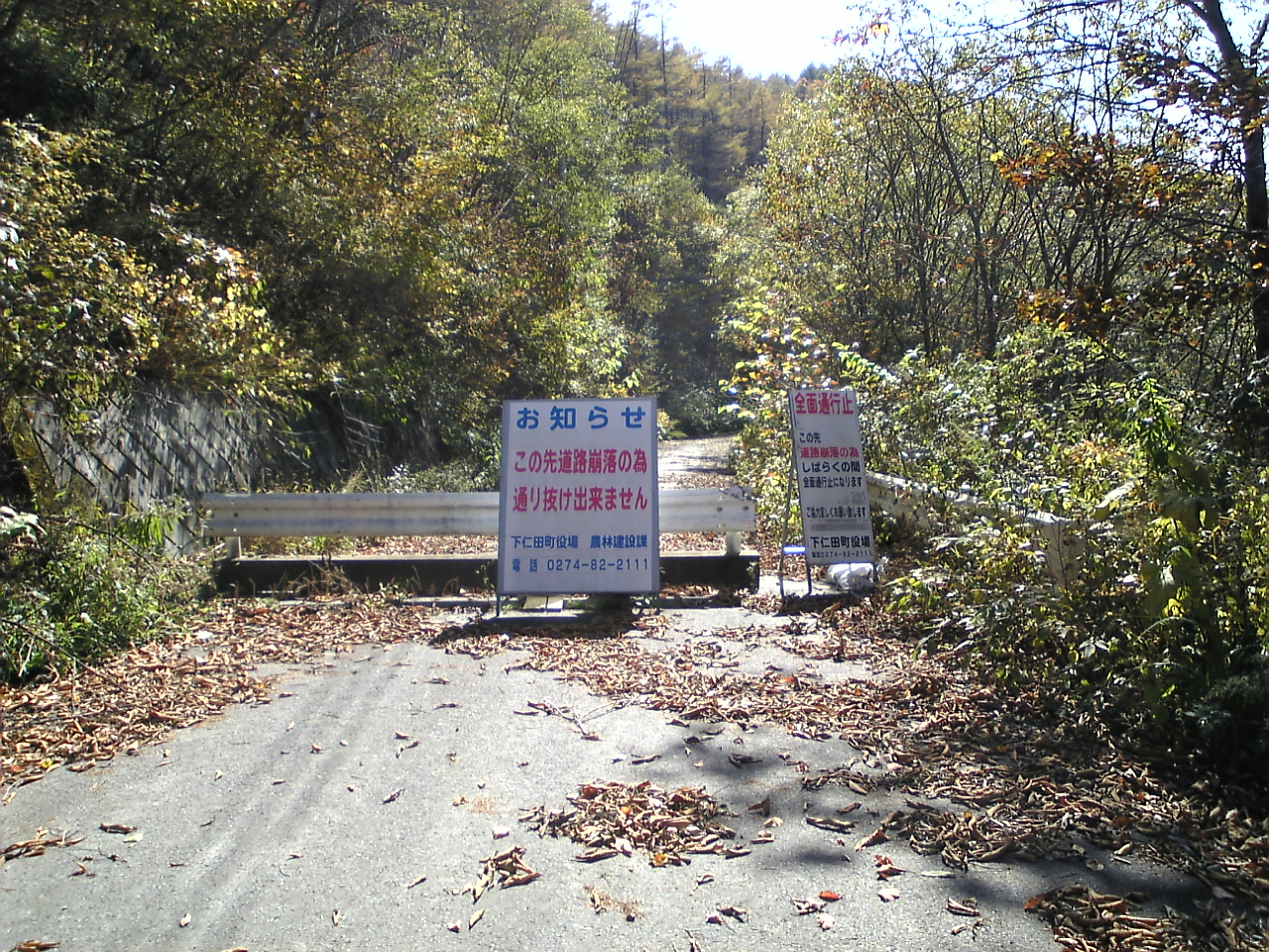 The Mikabo Super Forest Road